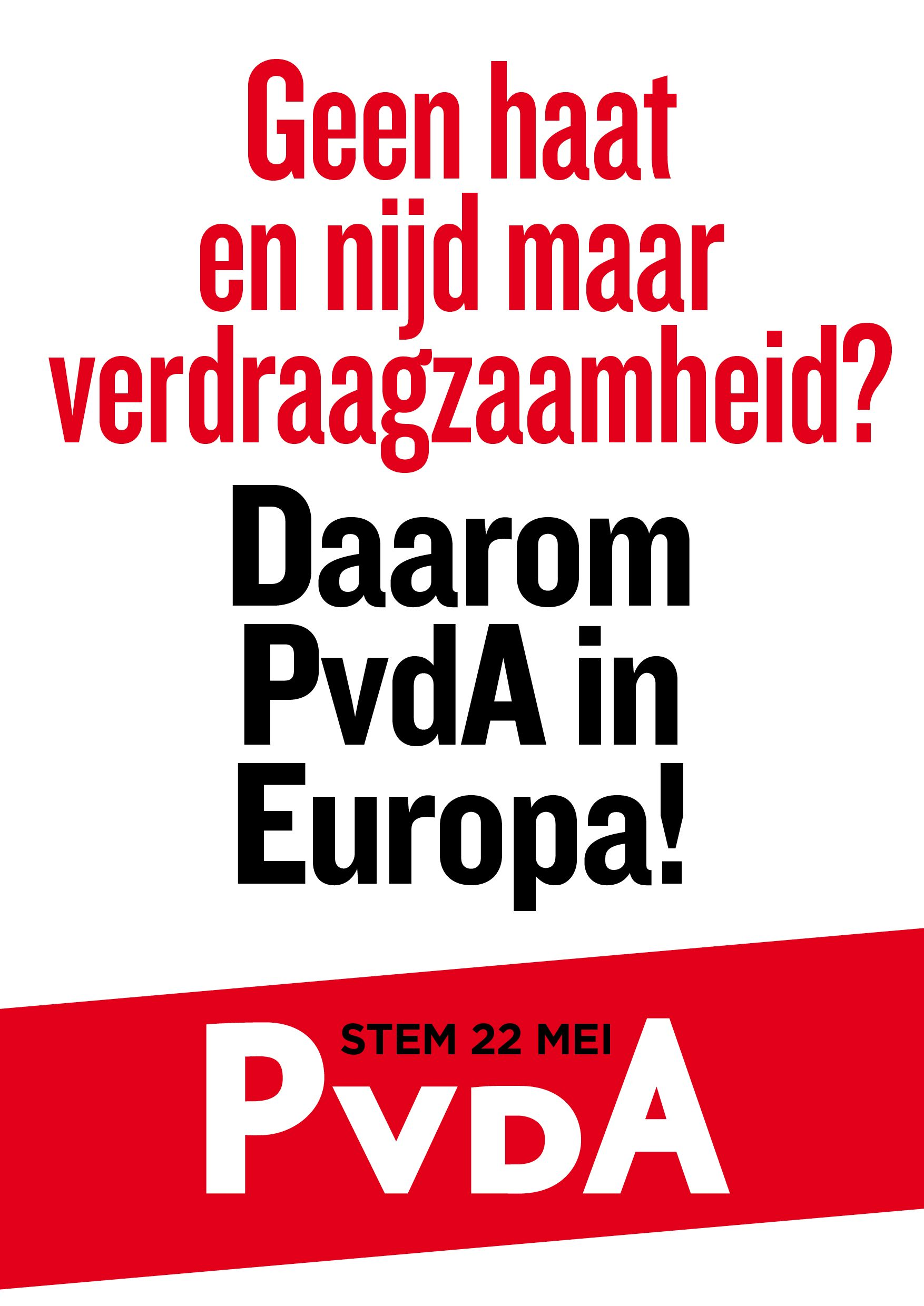 Poster voor de verkiezingen voor het Europees Parlement op 22 mei 2014.